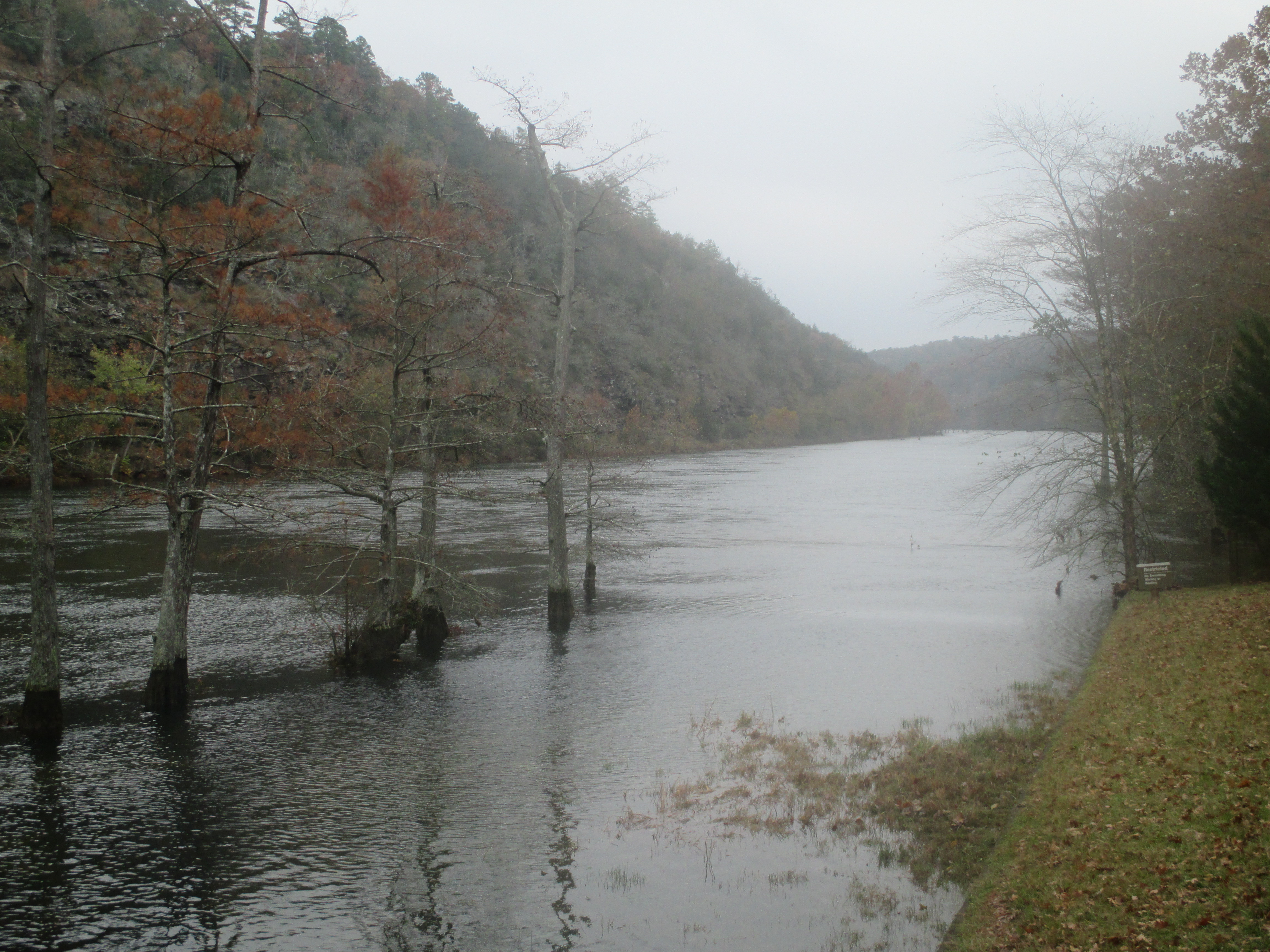 I took photo with Canon camera of Mountain Fork River in Oklahoma.